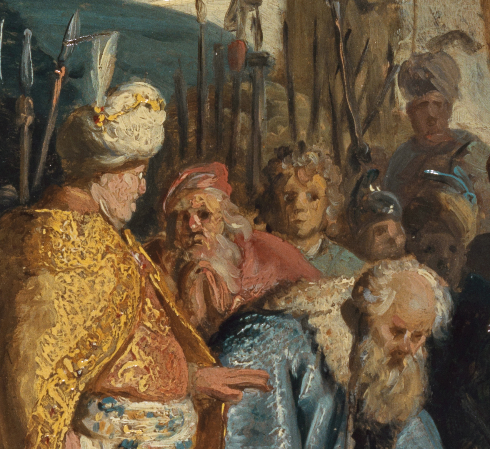 David übergibt Goliaths Haupt dem König Saul, Rembrandt van Rijn, 1627, oil on oak, 27.4 by 39.7 cm, Kunstmuseum Basel